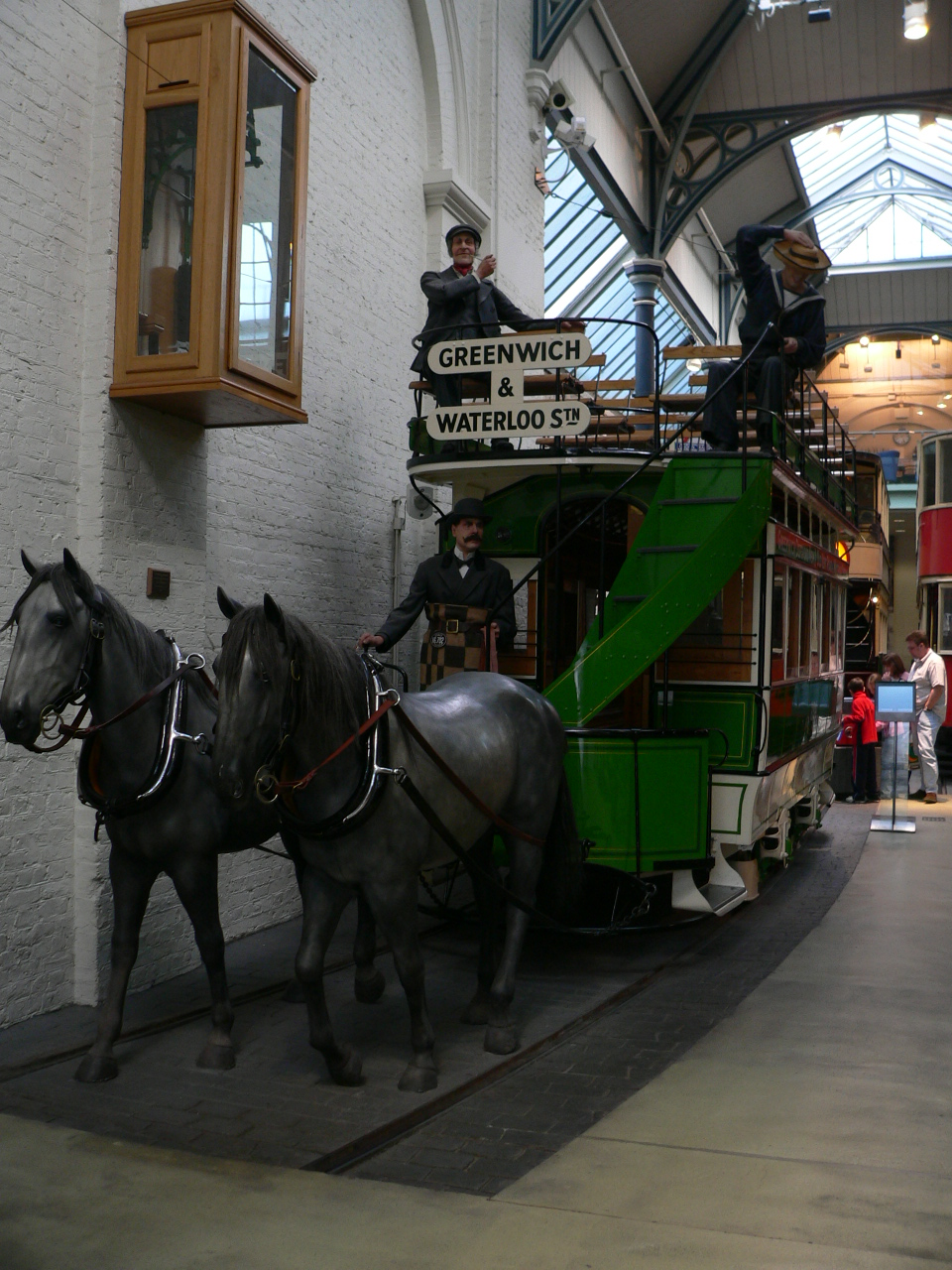 London Tramways Company horse tram no. 284, built in 1882 by John Stephensone & Co. of New York. Photographed at London's Transport museum